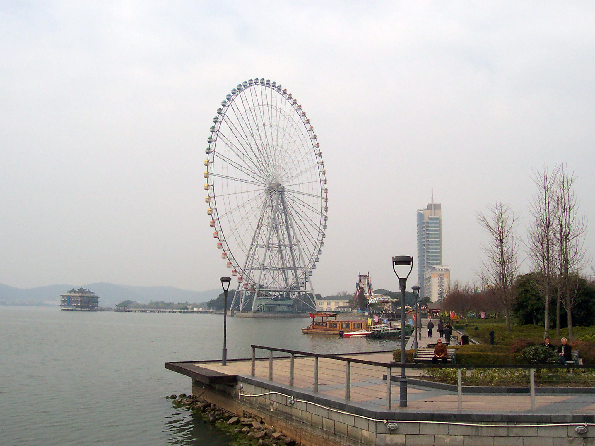 Lake Li, Wuxi